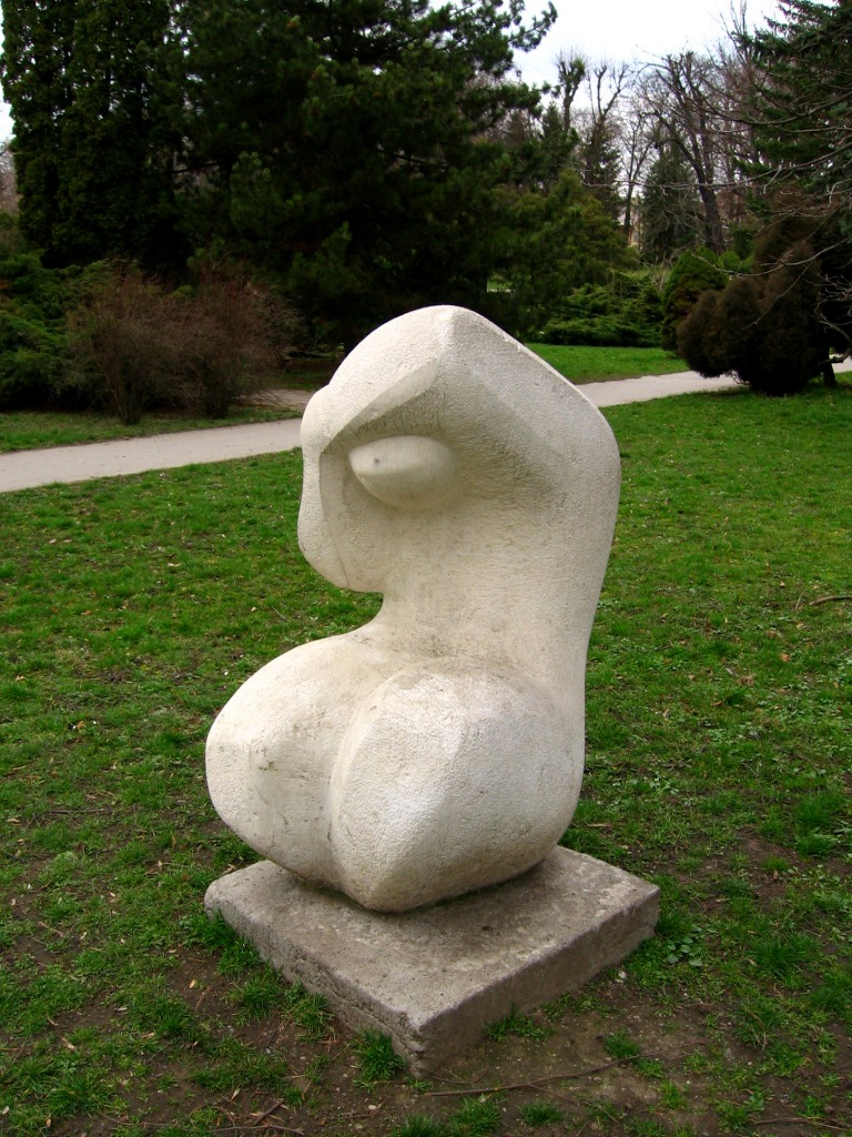 A sculpture of sitting woman by Karel Hořínek